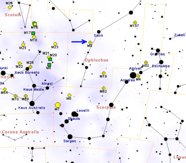 map of M9